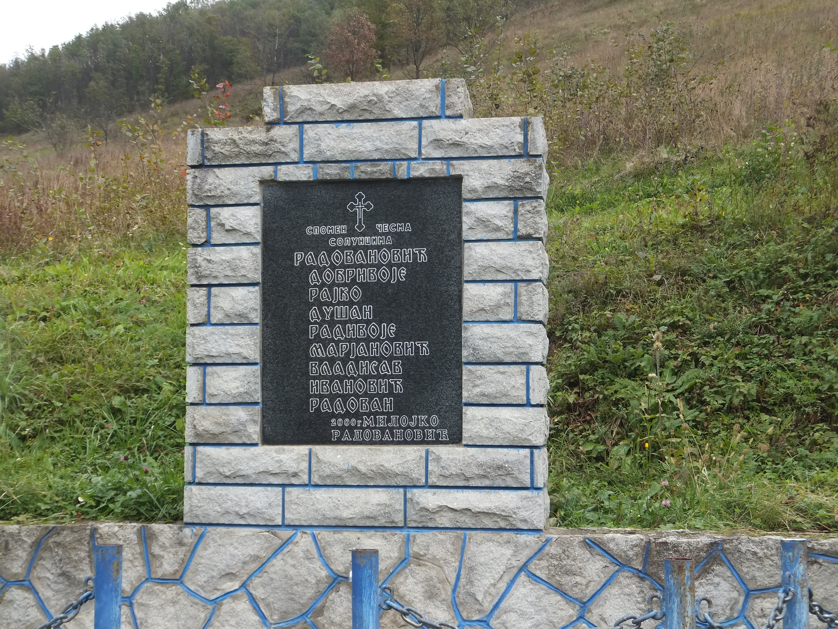 Reljinci, Memorial water fountain